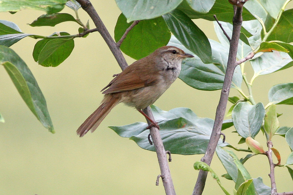 Manchurian Bush Warbler Horornis borealis, Hong He Gu, Shaanxi, China